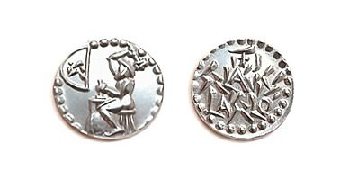 Laszlo Szlavics Jr. - card-medal